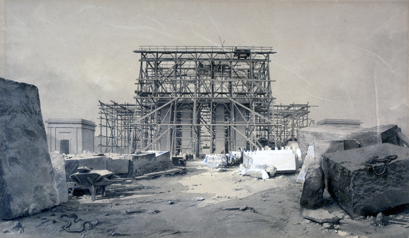 Photograph of a drawing: Construction of the Euston Arch, London, January 1838 by John Cooke Bourne.